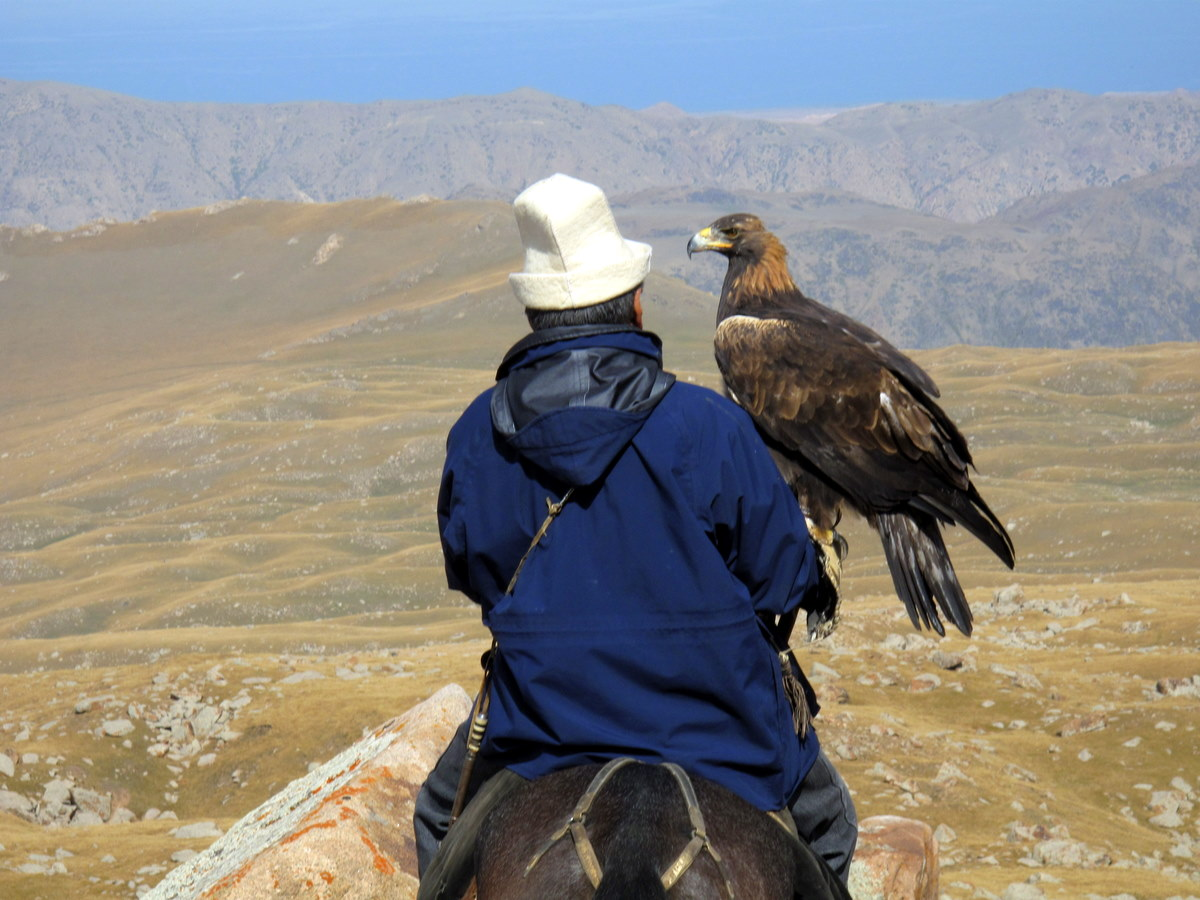 Ishenbek and Berkut scout for prey.